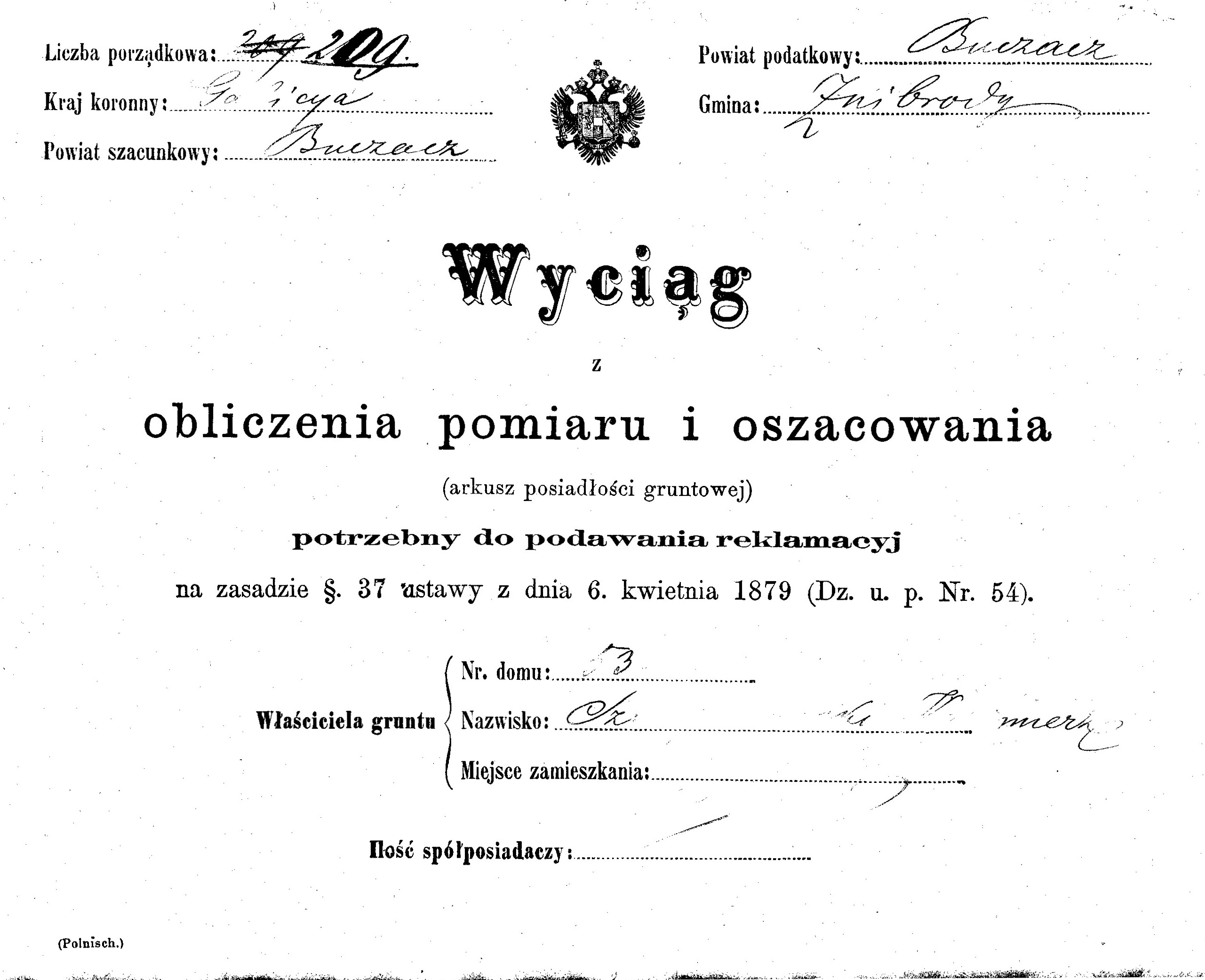 Extract the calculation of measurement and estimation fields a separate host in Zhnyborody (1879)